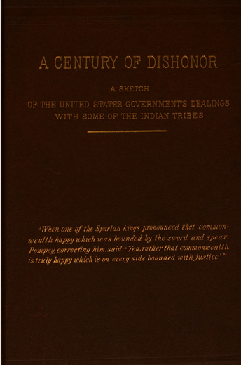 A Century of Dishonor: A Sketch of the United States Government's Dealings (1881), By Helen Hunt Jackson